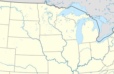 Midwest United States